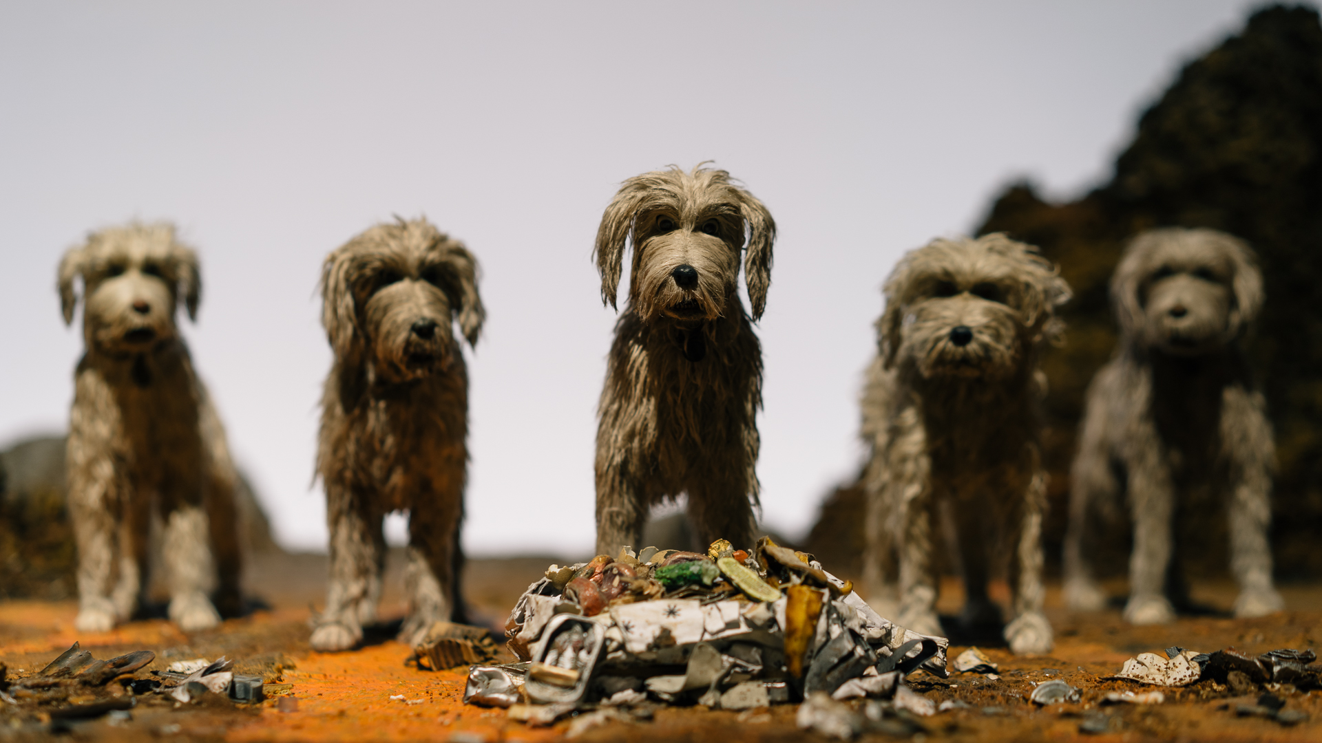 Sets from the film Isle of Dogs